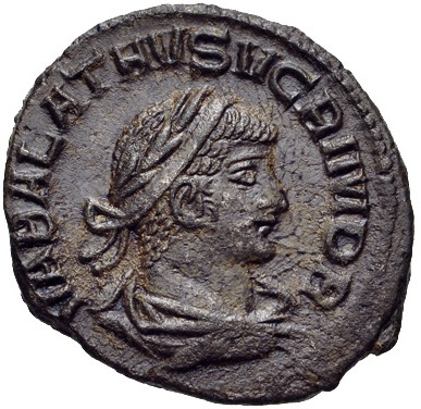 228, Lot: 327. Estimate $100. Sold for $84. This amount does not include the buyer’s fee. Aurelian, with Vabalathus. AD 270-275. Antoninianus (22mm, 3.78 g, 5h). Antioch mint, 8th officina. 1st emission, November AD 270-March AD 272. Radiate and cuirassed bust of Aurelian right; H below / Laureate, draped, and cuirassed bust of Vaballathus right. RIC V 381; BN 1258-61. Good VF, brown surfaces, minor roughness.